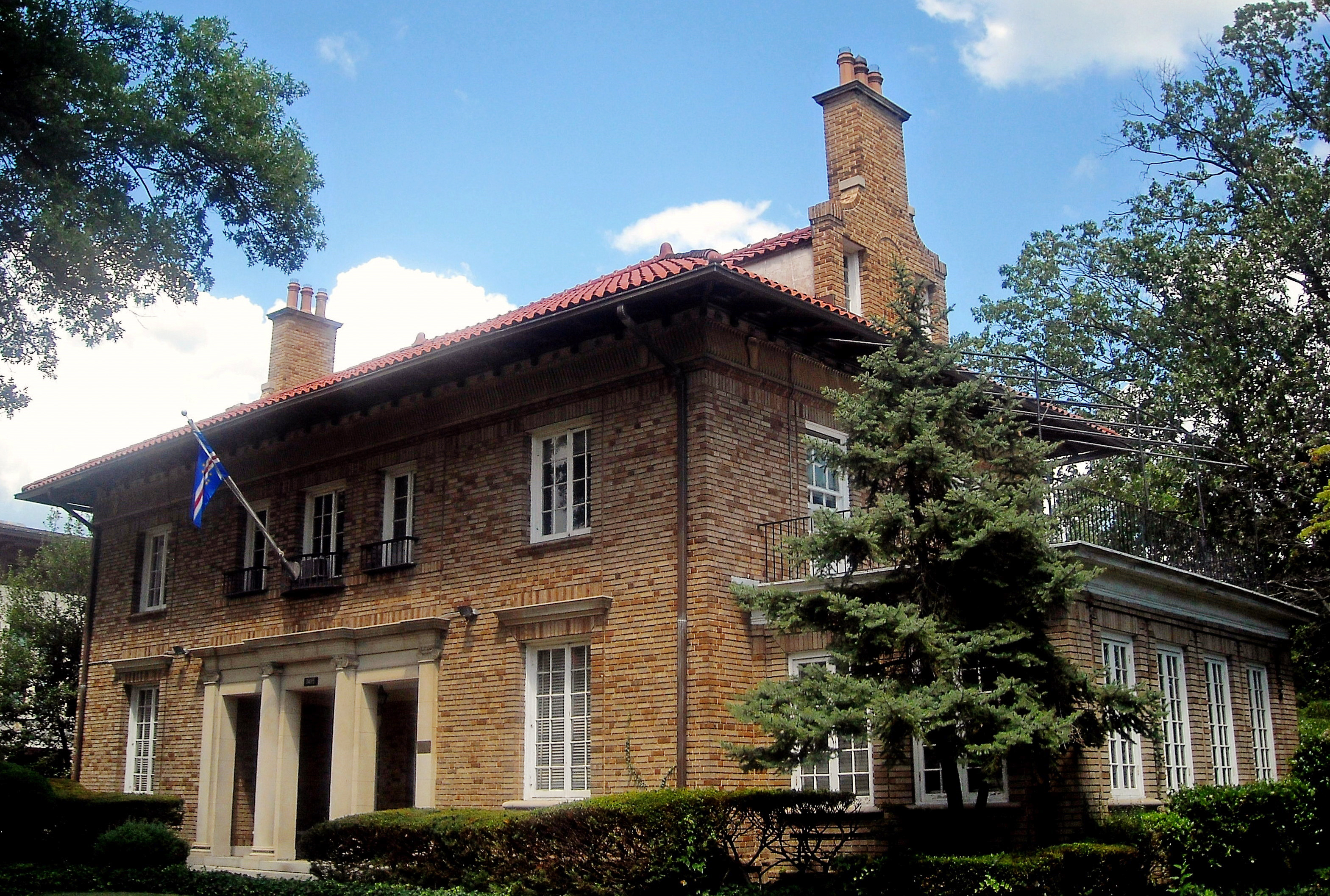 The Embassy of Cape Verde, located at 3415 Massachusetts Avenue, N.W., in the Massachusetts Heights neighborhood of Washington, D.C. Built in 1912 to the designs of local architect Arthur B. Heaton, the Neo-Renaissance embassy is historically known as the Babcock-Macomb House. The building was listed on the District of Columbia Inventory of Historic Sites in 1989, as well as the National Register of Historic Places in 1995.